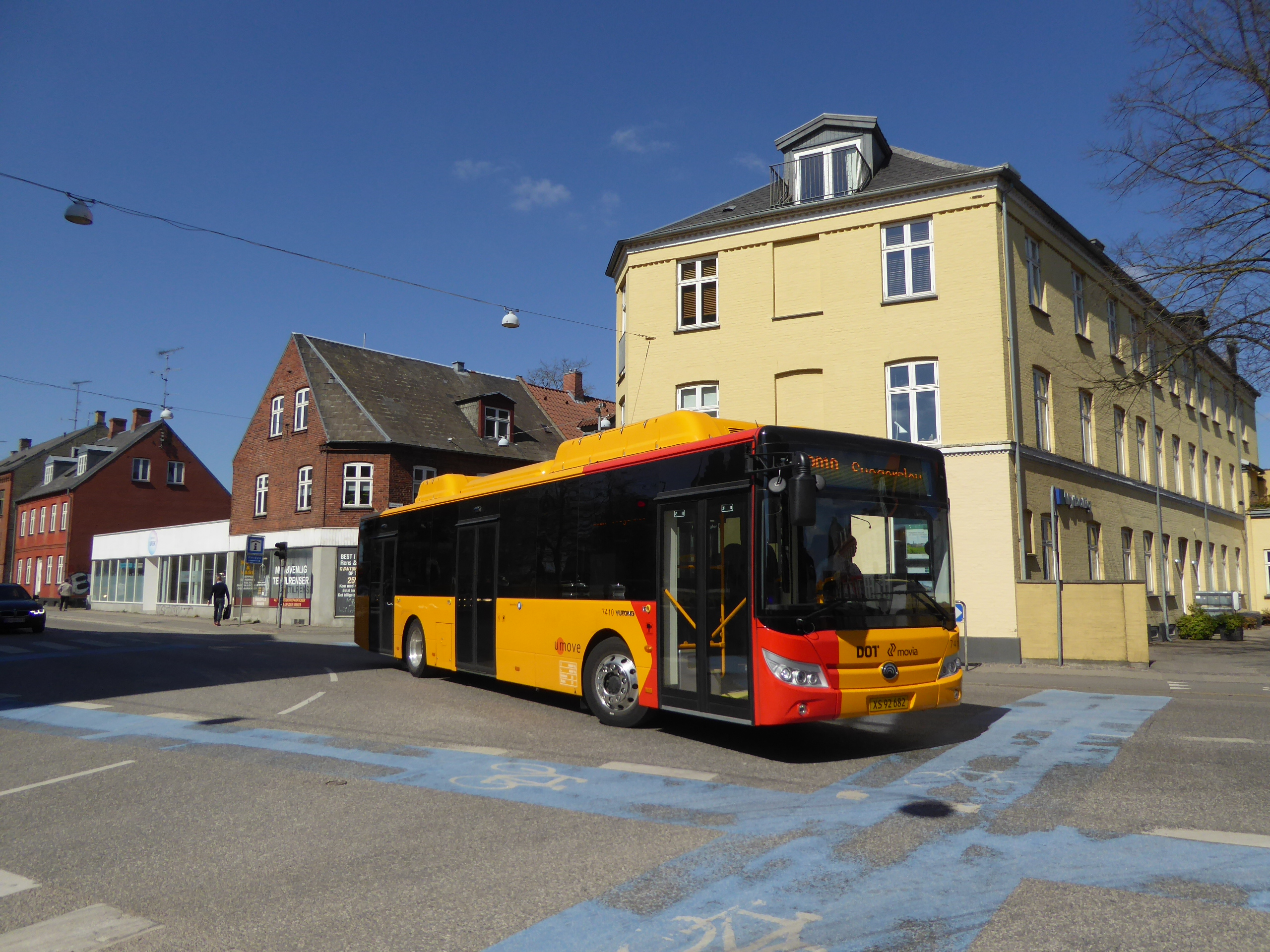 Movia bus line 201A on Jernbanegade in Roskilde in Denmark. The day before all the local bus lines of Roskilde got electric Yutong E12LF buses like this.